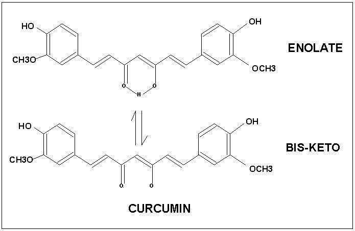 Curcumin is chemical which is present in turmeric oil